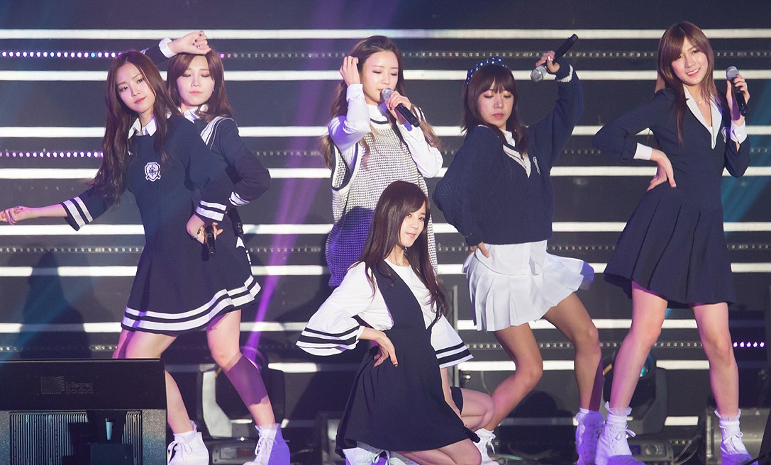 A Pink at Pepsi Concert, 16 November 2014. Left to right: Naeun, Eunji, Bomi, Namjoo, Hayoung, and Chorong (kneeling).